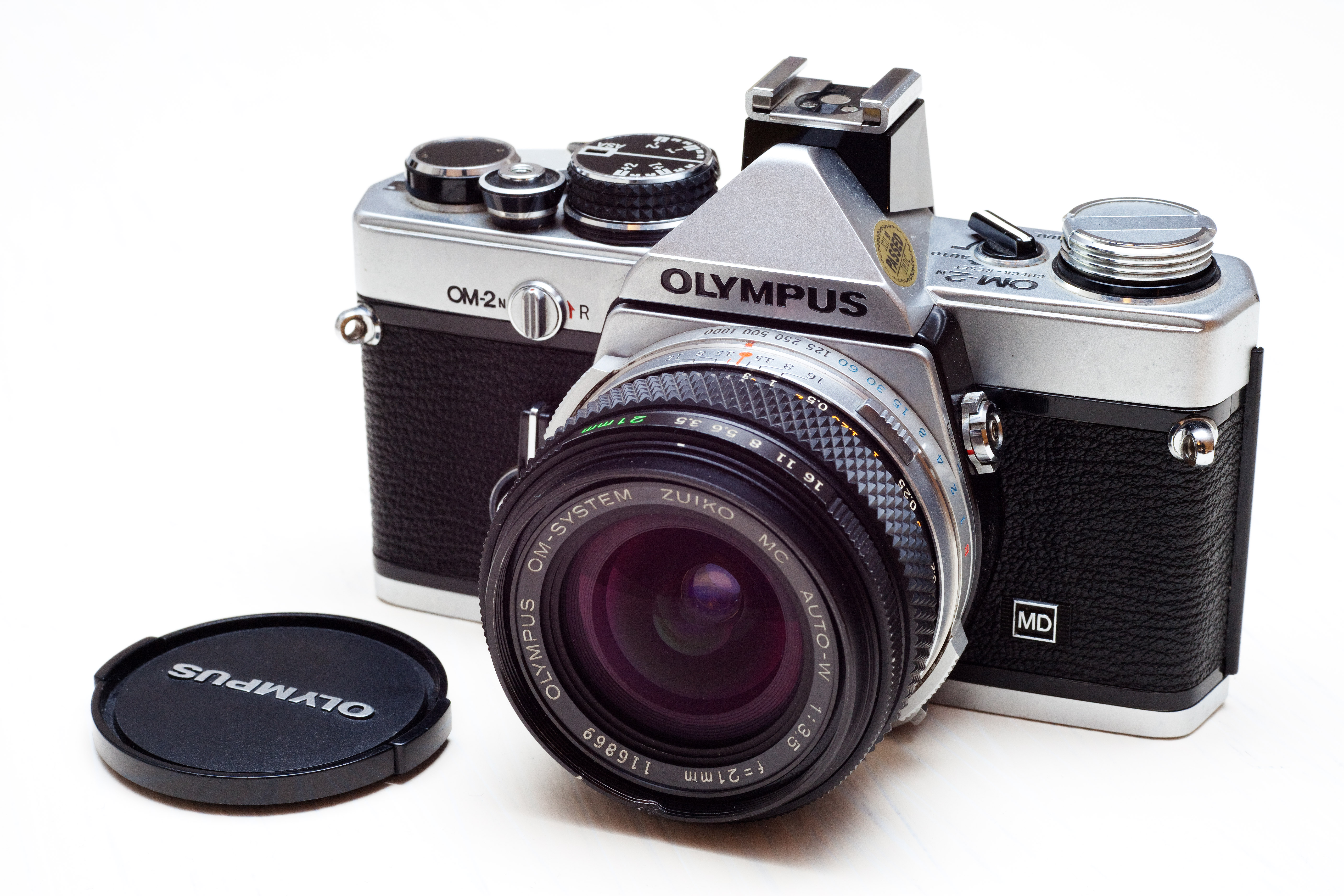 An Olympus OM-2n 35mm SLR with a battered 21mm f/3.5.